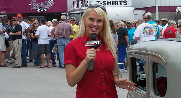 Genevieve Chappell on an ESPN2 shoot